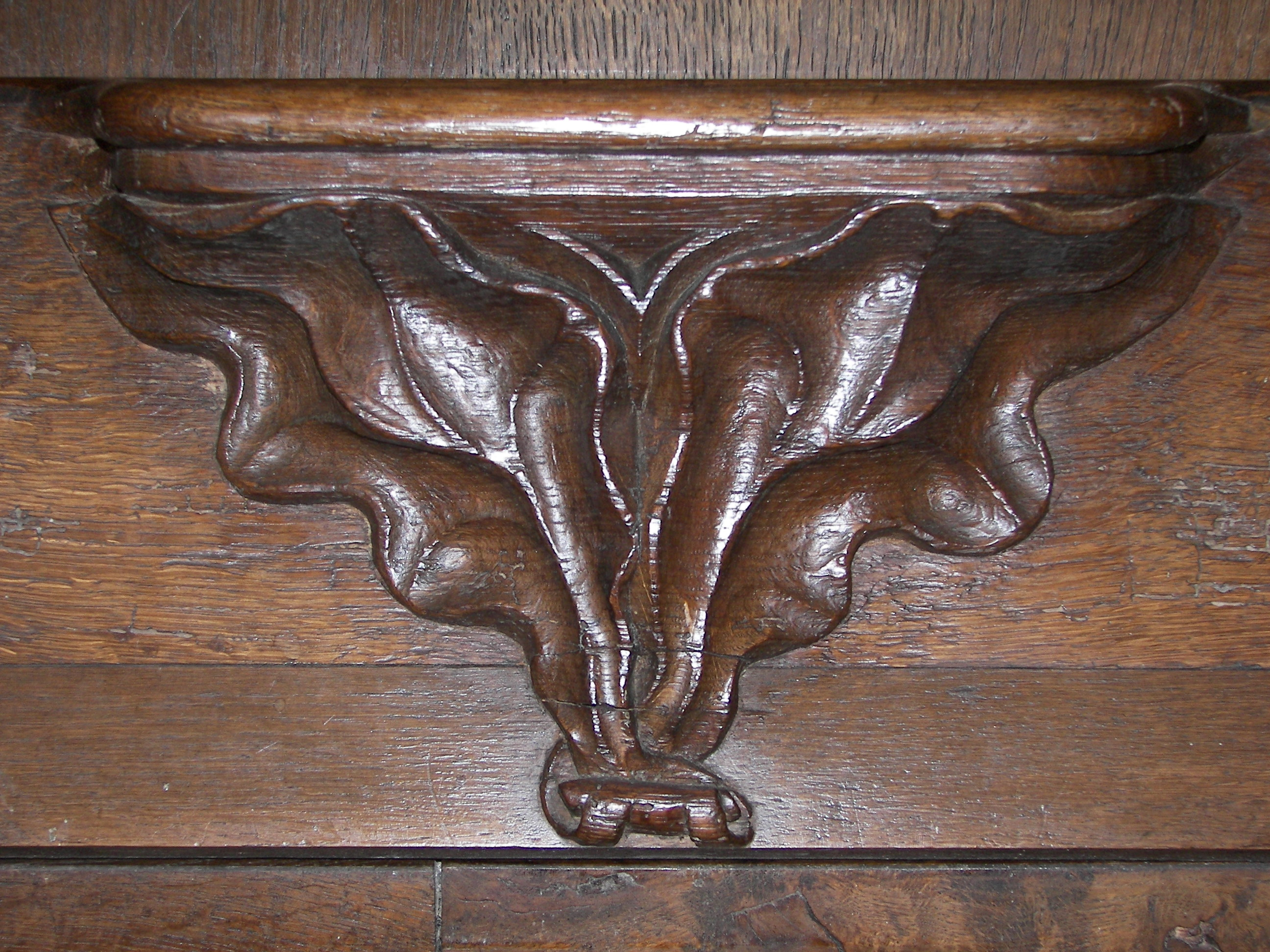 Misericord from Saint-Nithier Church of Claivaux-les-Lacs (Jura/FRANCE)